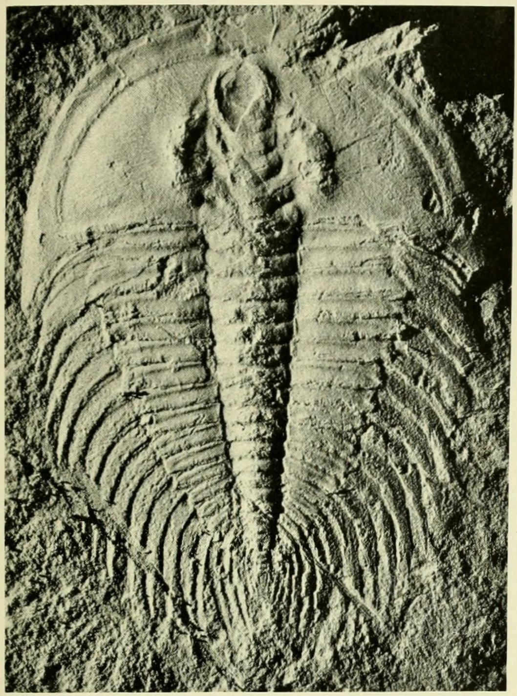 Nevadella eucharis (Walcott, 1913) Callavia eucharis; Walcott 1913:315, pl. 53, fig. 1. Nevadella perfecta (Walcott); Fritz 1992:?. Catalog record: USNM PAL 60079 Original historic description: PAGE Callavia eucharis Walcott315 Fig.1. (× 2.) Type specimen of the species. (Locality 61k.) U. S. National Museum, Catalogue No. 60079. The specimens represented here by figs. 1-5 are from locality 61k. Lower Cambrian: Mahto formation; dark, hard siliceous shale, northeast base of Mumm Peak above Mural Glacier on the west side of Hitka Pass, 6 miles (9.6 km.) in a direct line north of summit of Robson Peak and northwest of Yellowhead Pass, in western Alberta, Canada.